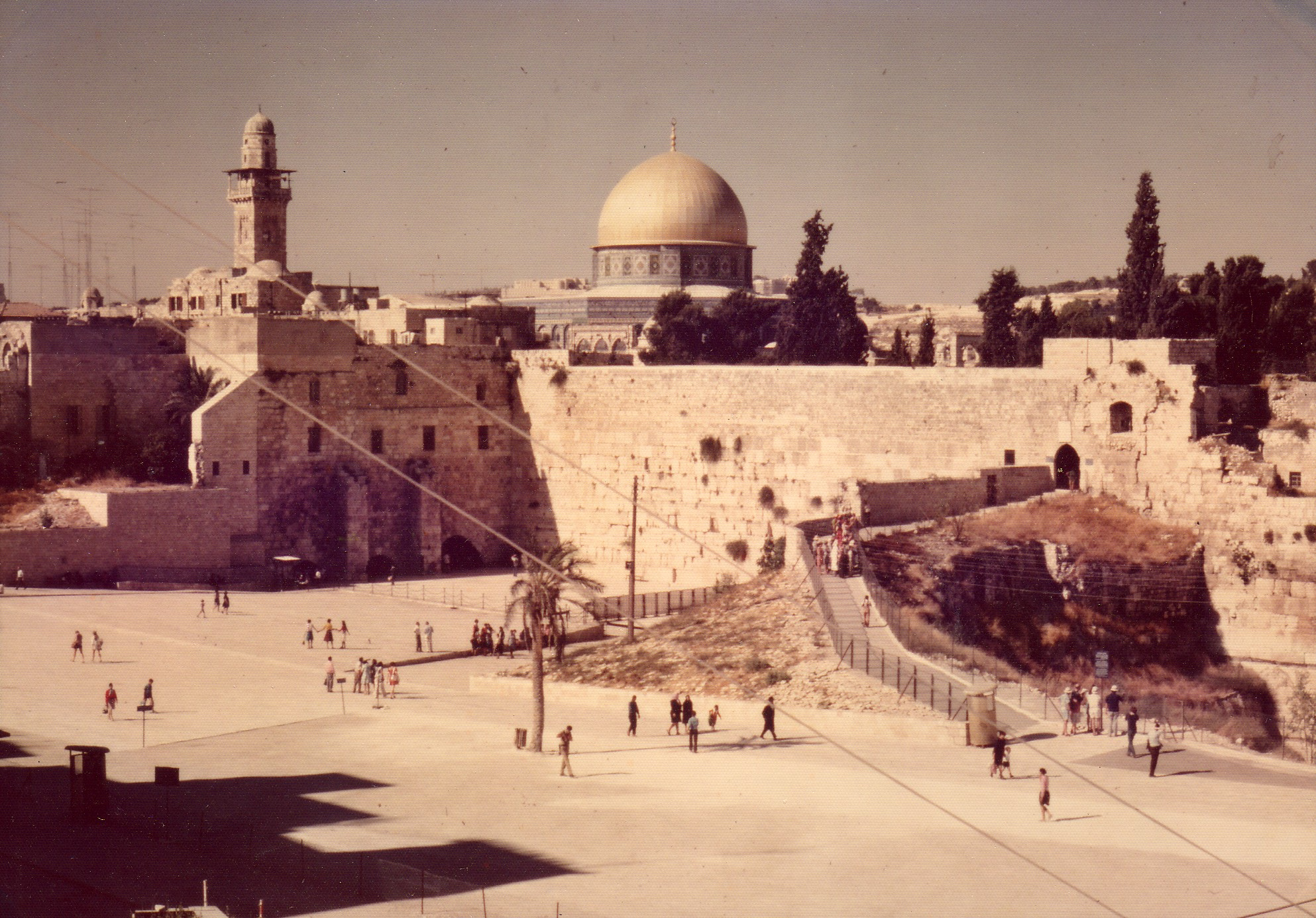 HaKotel HaMa'aravi (Western Wall) and Dome of the Rock - Jerusalem - 4 August 1974 Touring with Nahal Oz volunteers